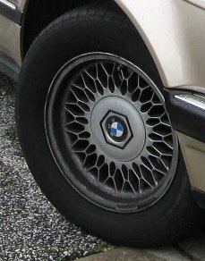 BBS alloy rim on BMW 740i E32 derived from source image (see below)